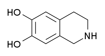 i drew this anyone can use it